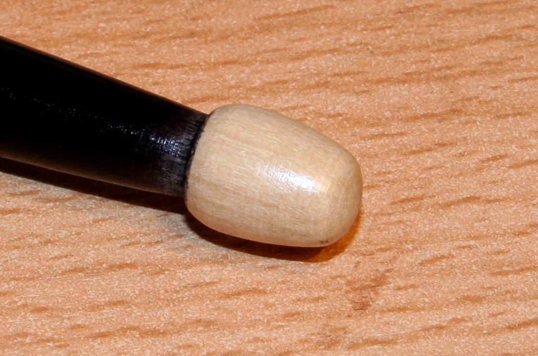 head of a drum-stick